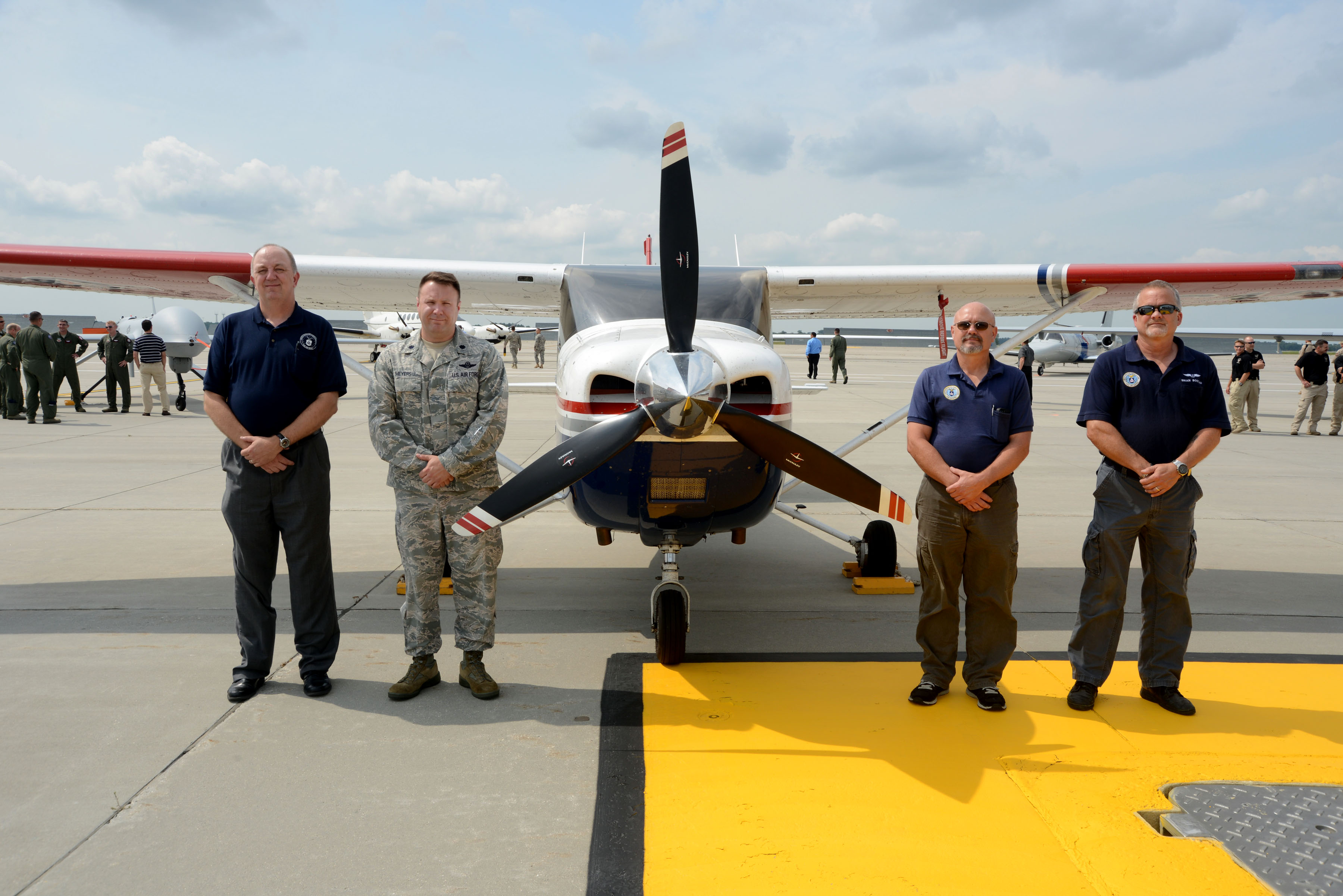 Standing by a CAP Cessna, members from the North Dakota Civil Air Patrol pose for a group photo on the flightline of Grand Forks Air Force Base, N.D., on Aug. 20, 2014. The CAP Airmen from the particiapted in the first ever Unmanned Aircraft Systems Airspace Integration Test in the U.S., which took place Aug. 4-22, 2014, at Grand Forks AFB.